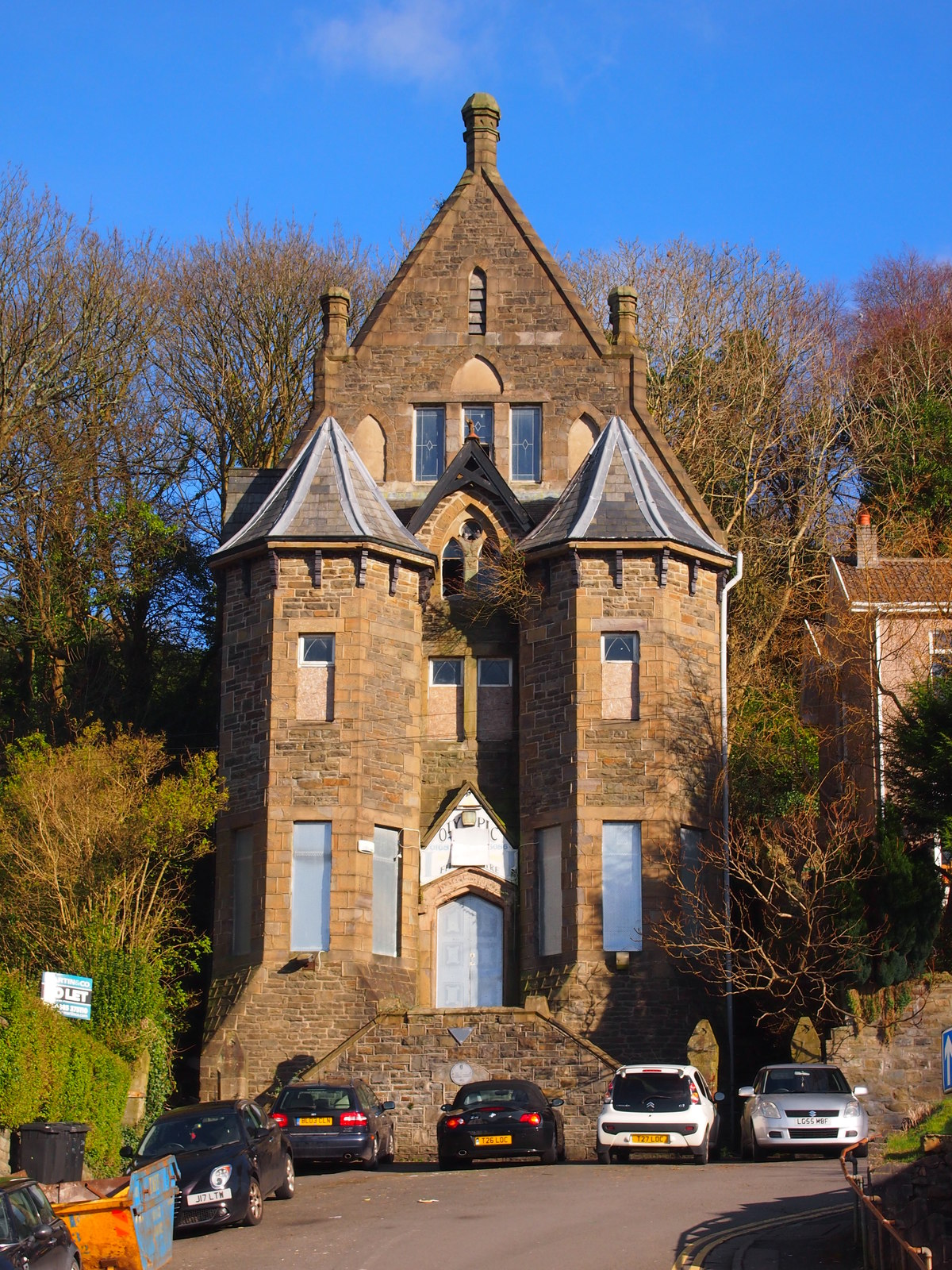 Merthyr Christian Centre, Bryntirion Road, Merthyr Tydfil, Wales, seen from the west from Church Street. Completed in 1875 as a synagogue.